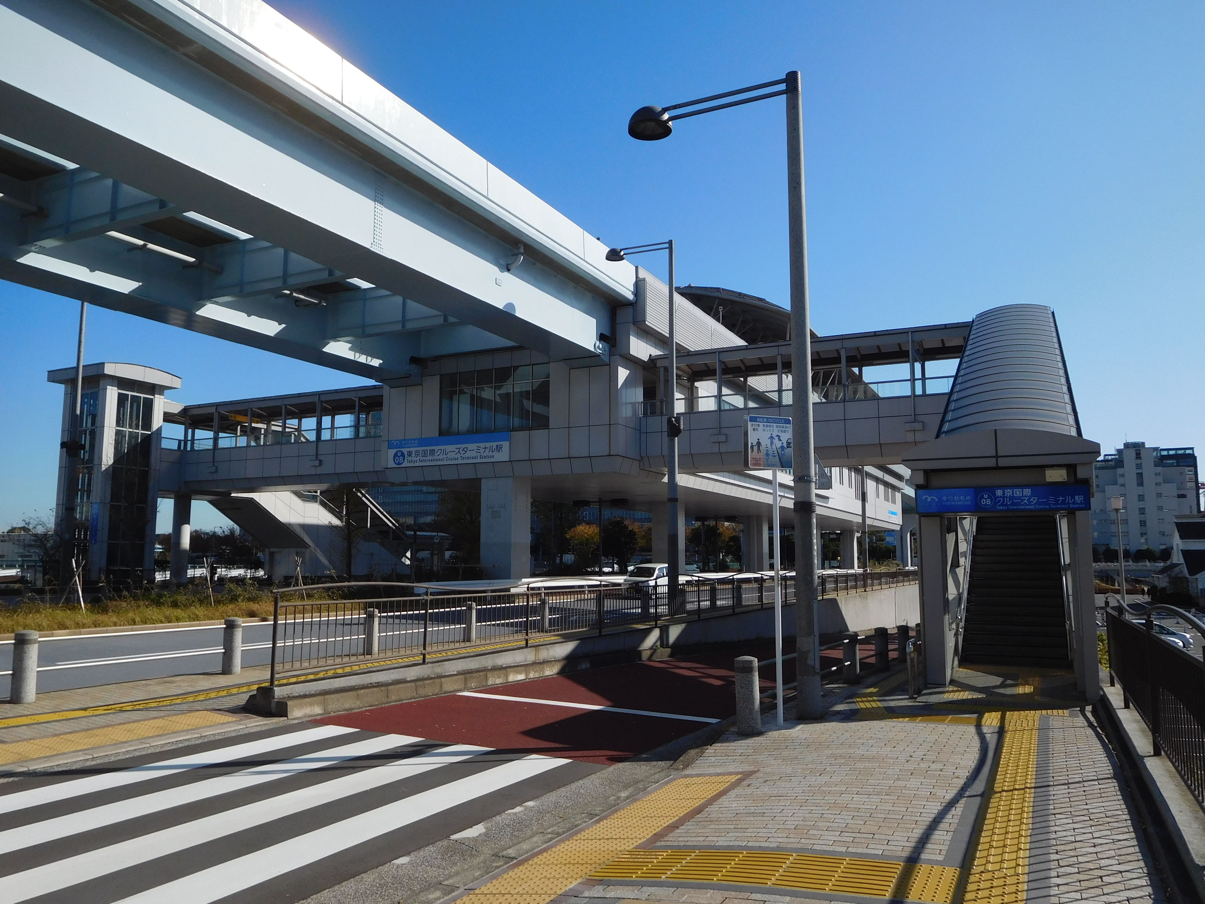 This is Tokyo International Cruise Terminal station in Kōtō, Tokyo, Japan.